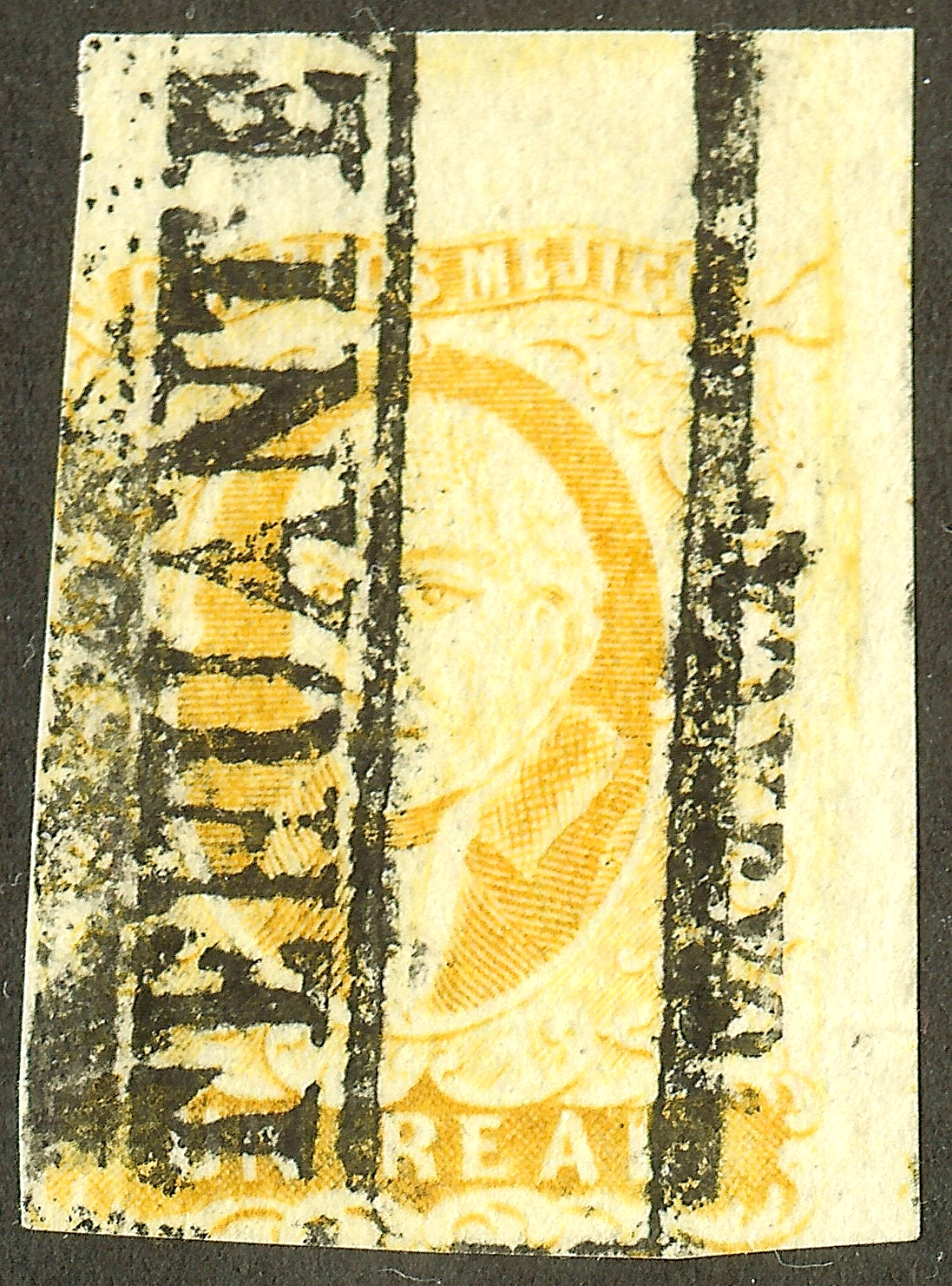 Mexico 1856 un real Scott 2 District Oajaca.